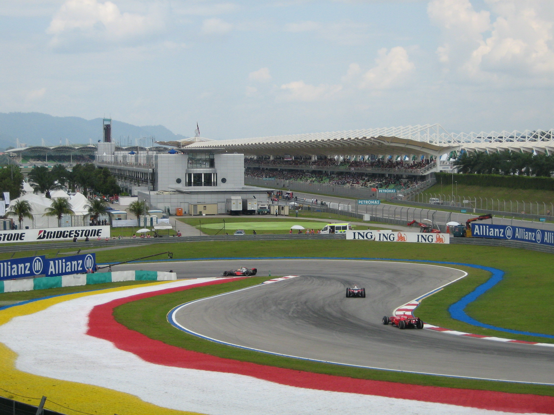 formula 1, sepang international circuit, malaysia